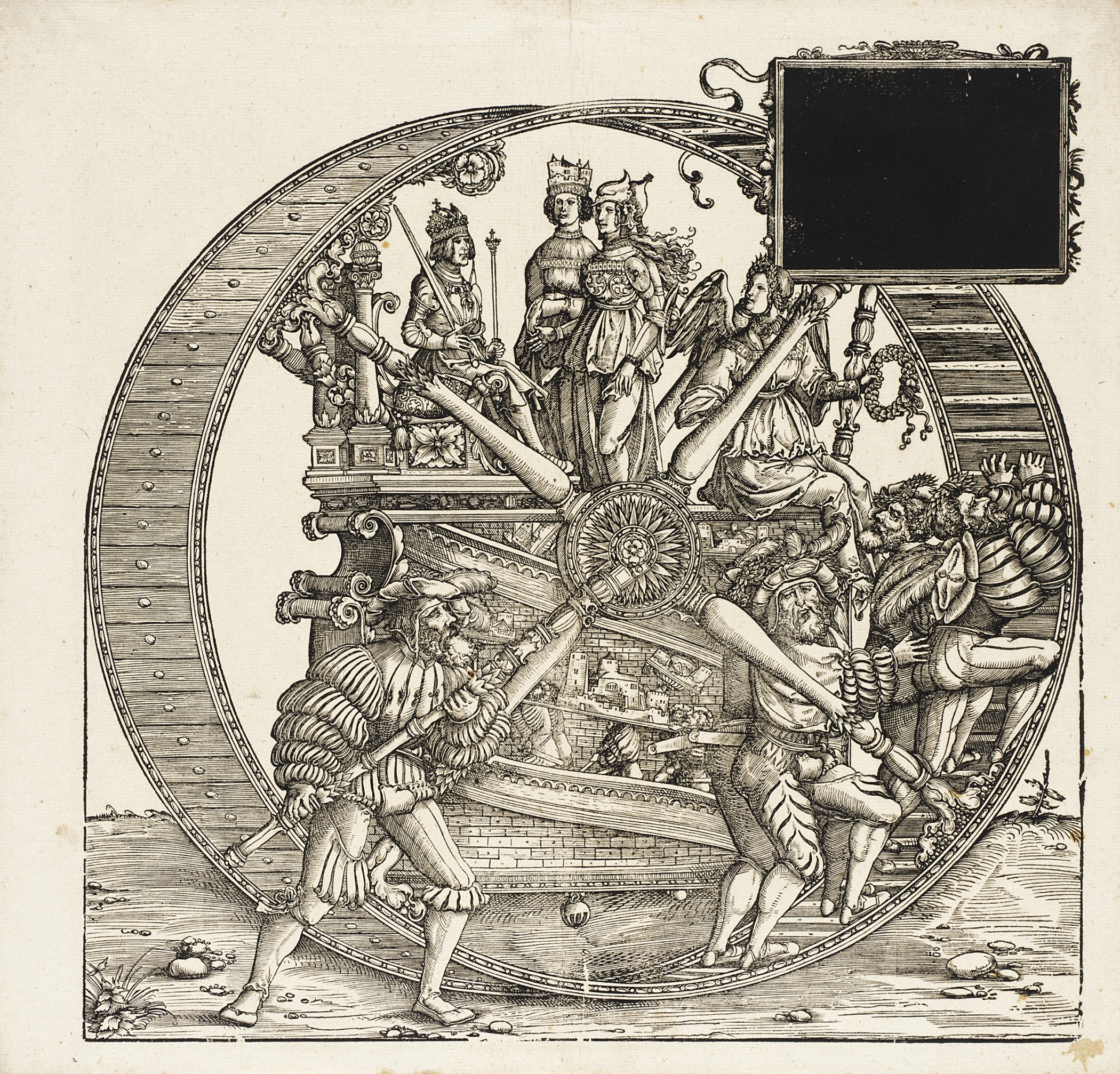 India, Punjab, 19th century Costumes; Accessories Silk embroidery on cotton (khaddar) Gift of Mrs. Samuel S. Perry (M.64.24.1) Costume and Textiles